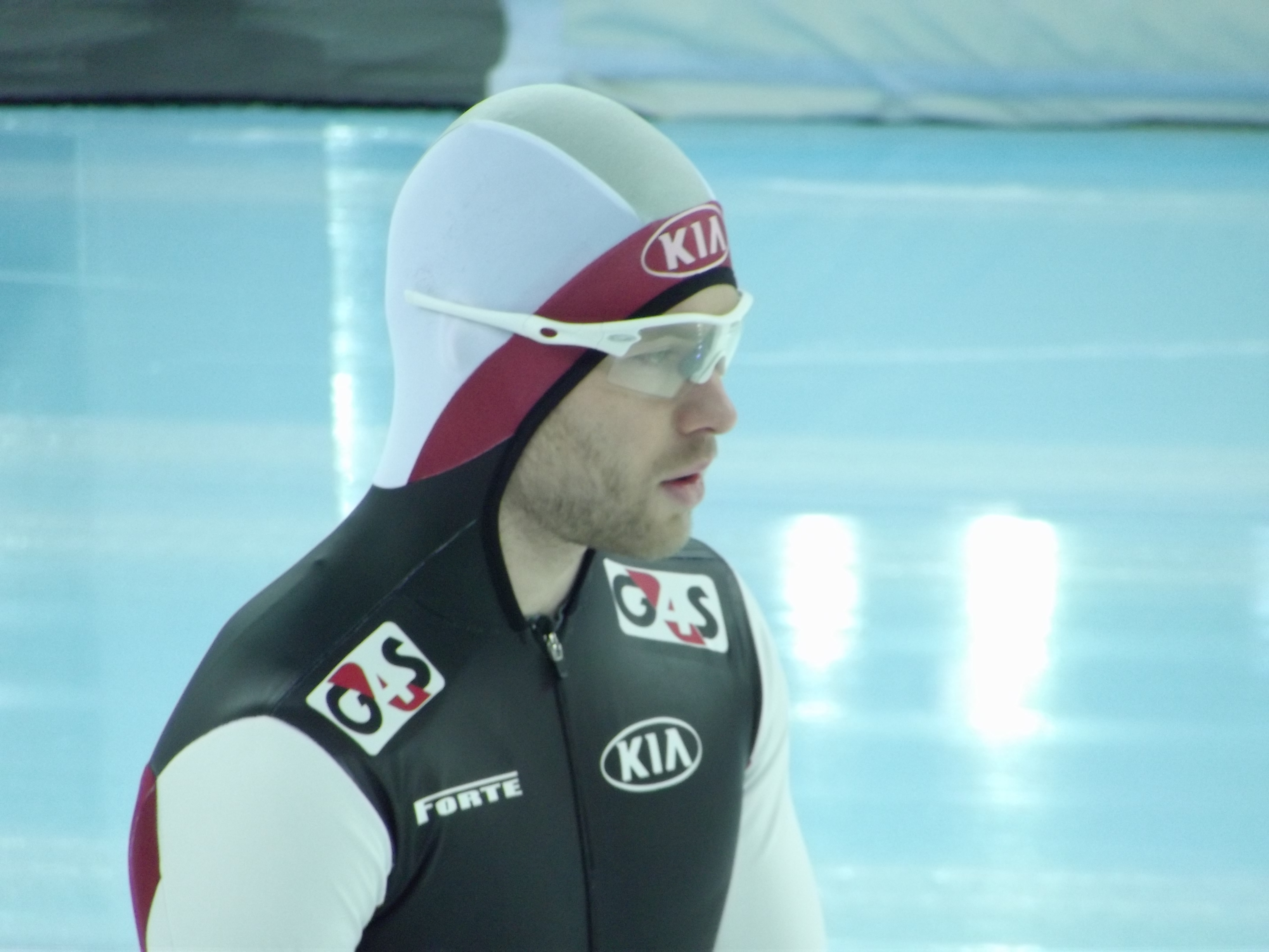 2013 World Single Distance Speed Skating Championships